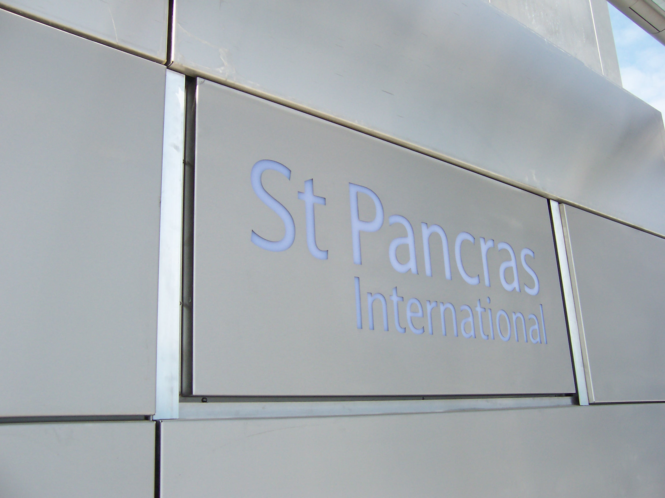 An example of stylish signage at London St Pancras International.